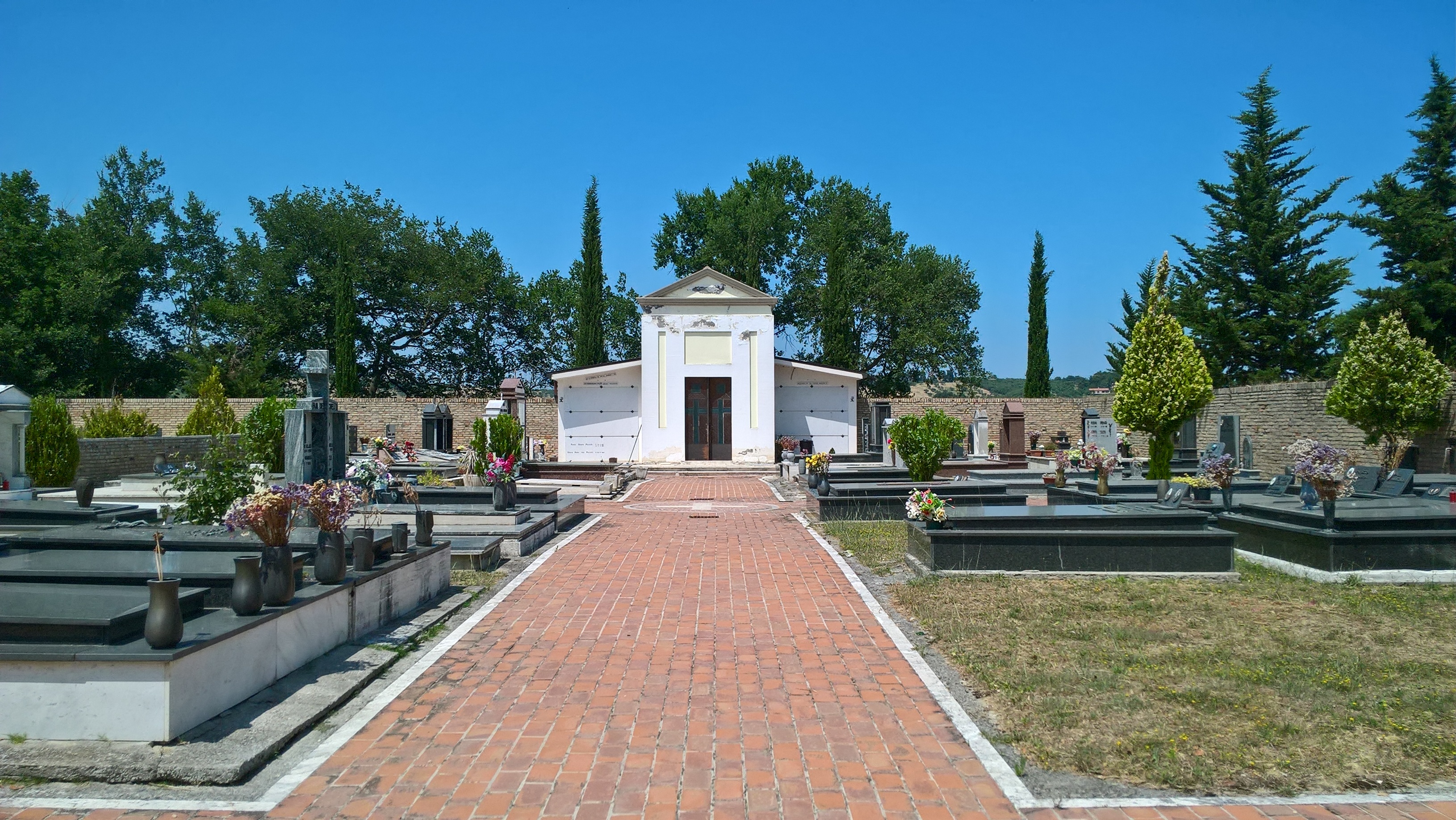 Cemetery in Villa Badessa; left is west, right is east